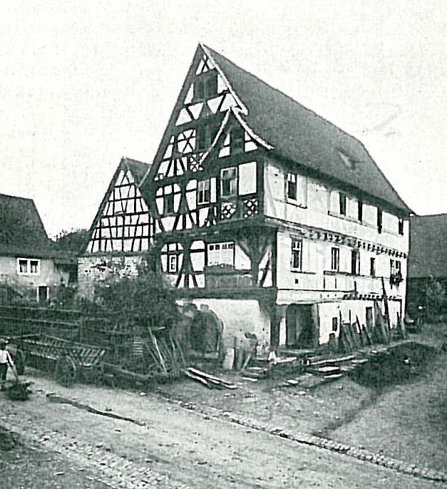 historical view of Reilsheim